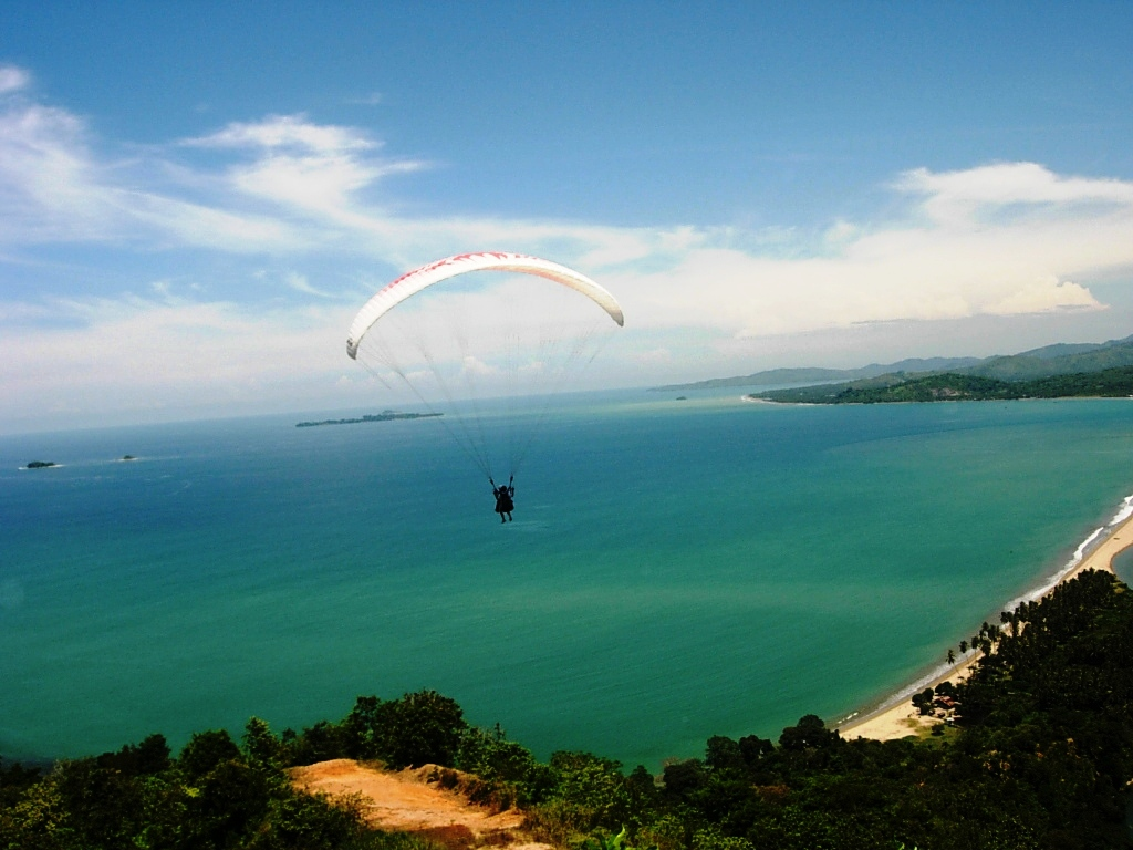 A Paragliding activity as seen from Langkisau Hill, Painan, Indonesia